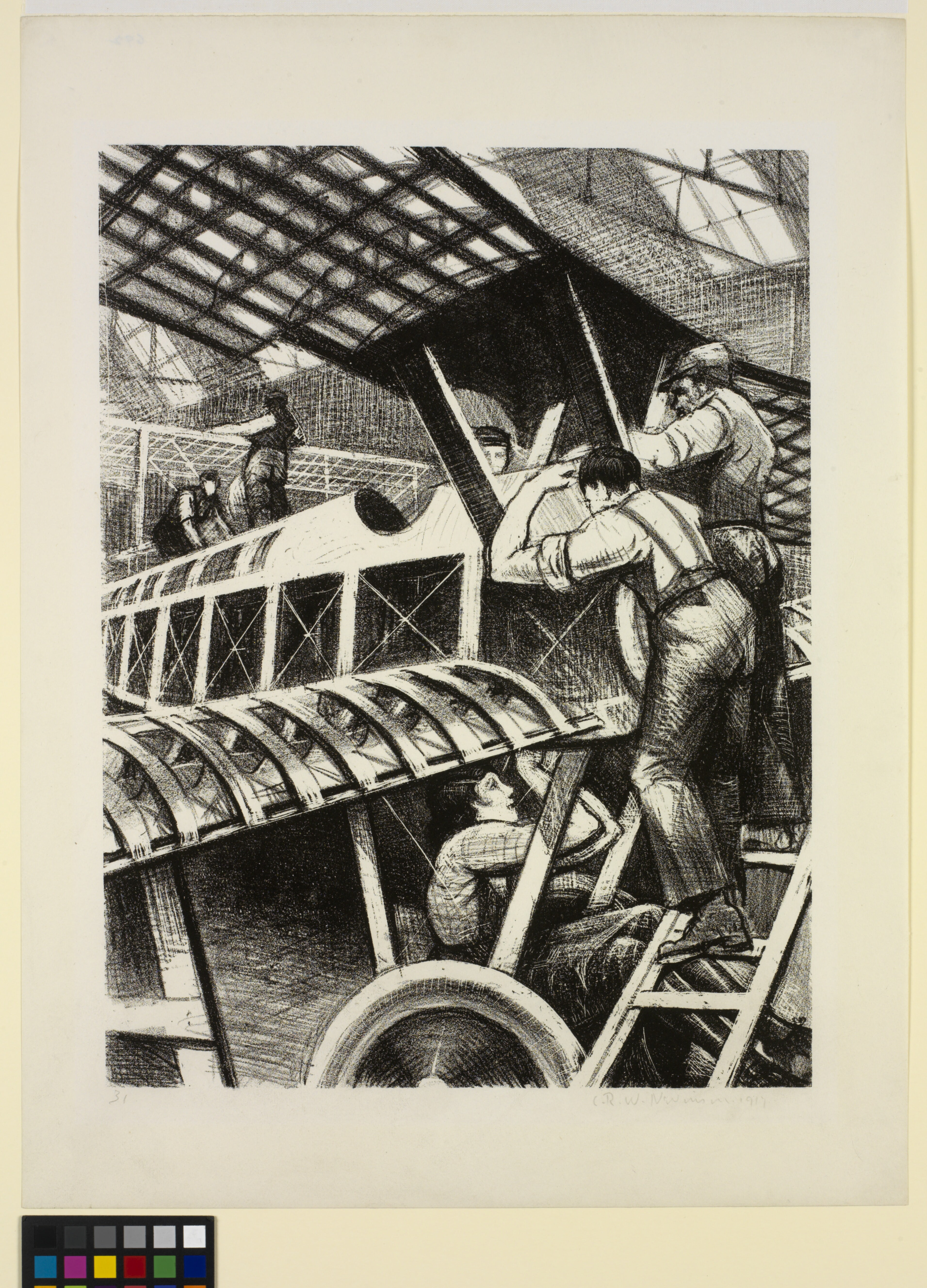 Assembling Parts 'britain's Efforts and Ideals'; Making Aircraft image: several workers are assembling a biplane in a factory. The basic structure of the biplane is complete. Further back another group of workers assembles another plane.